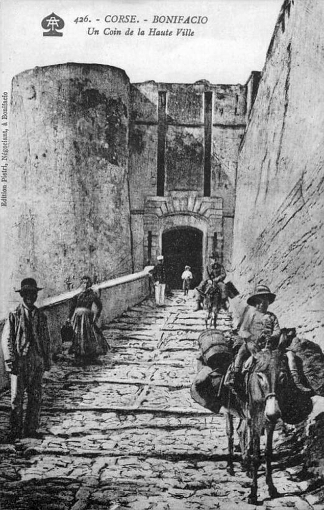 Key : "426. - CORSE. - BONIFACIO Un Coin de la Haute Ville Edition Pietri, Négociant, à Bonifacio" (Paved pathway leading up to the old city).